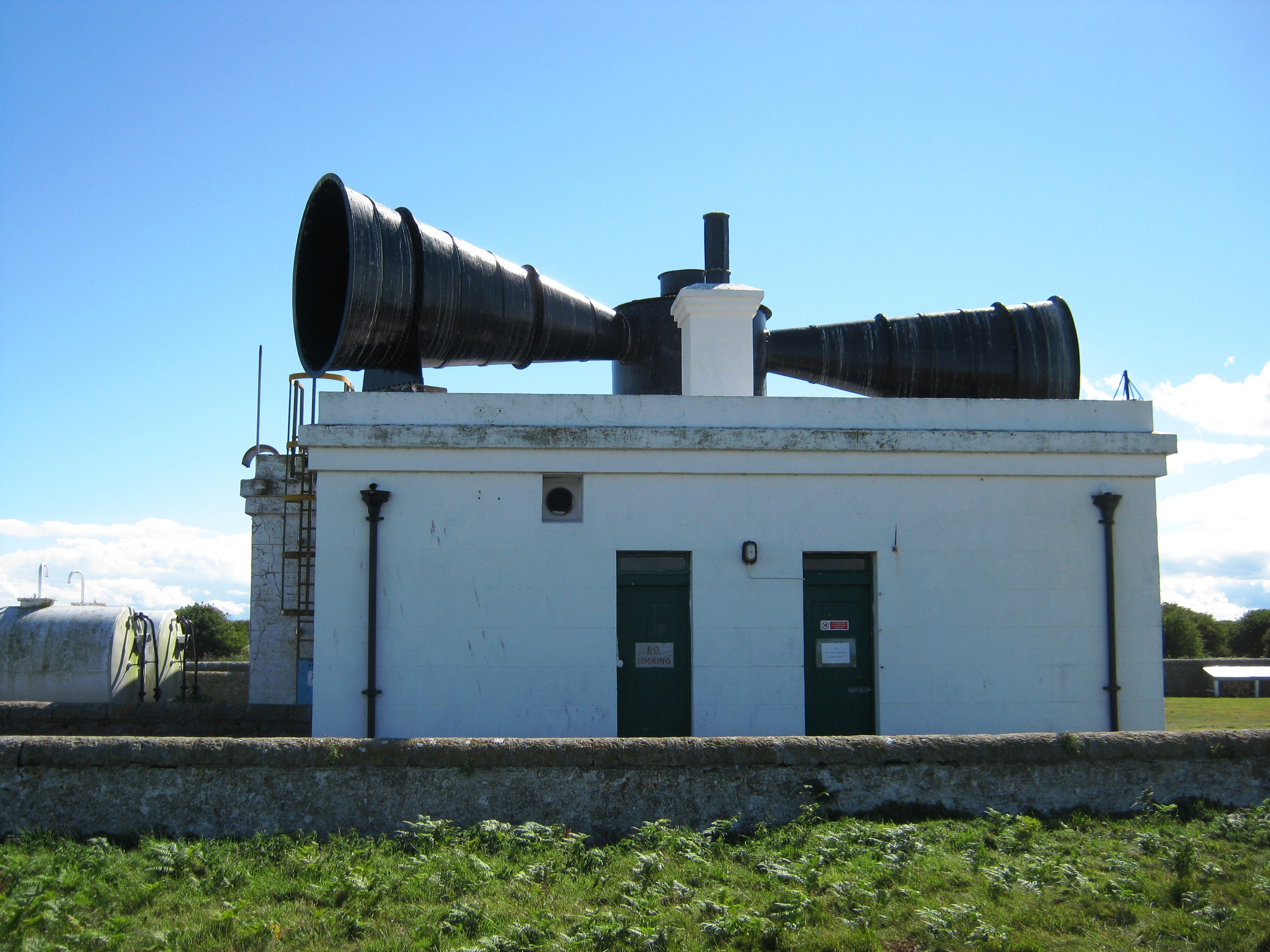 Foghorn Station, Flat Holm.